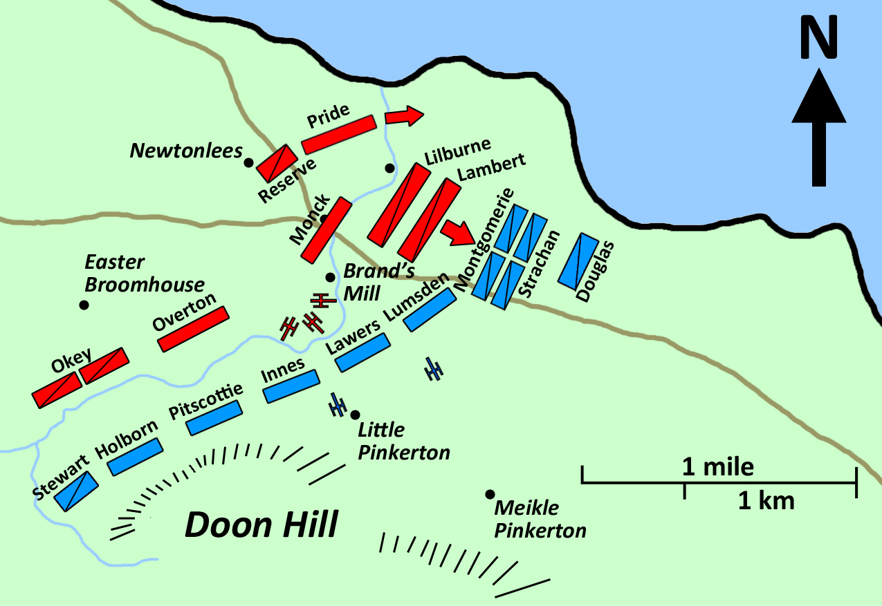 The Battle of Dunbar took place during the War of the Three Kingdoms, in what is commonly referred to as the "Third English Civil War". This map depicts the general layout of the two armies as they engaged, at 0530. The Scottish army is labelled in blue, while the English army is in red.